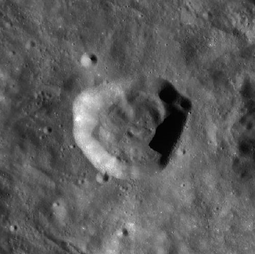 Chalonge crater, on the far side of the moon. Mosaic of LRO WAC images. Aspect ratio adjusted from Mercator Projection.